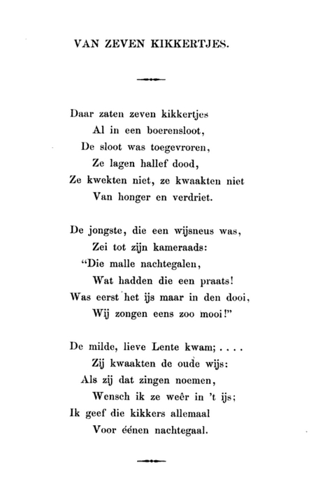 The Dutch children's song 'Seven little frogs were sitting / In a farmer's ditch' by Jan Pieter Heije (1809-1876) in his songbook "Al de kinderliederen" (1861), page 11.